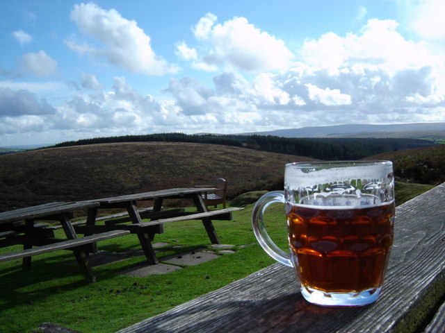 A Pint of Beer Overlooking Dartmoor in the Warren House beer garden